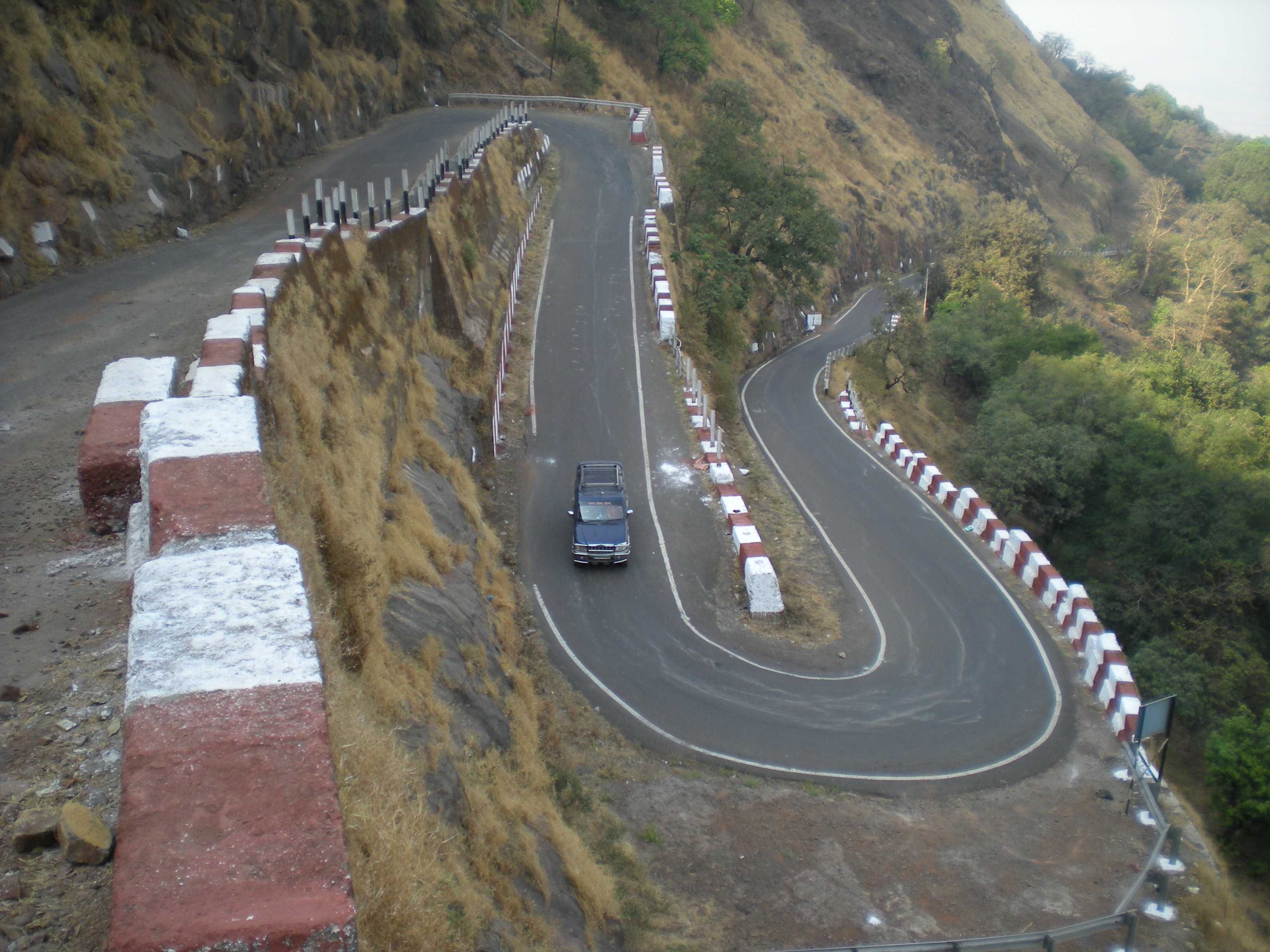 hair pin